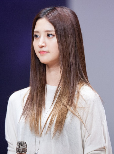 140824 쇼케이스